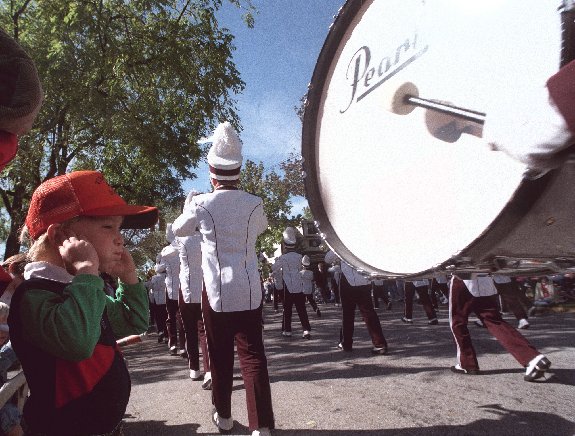 Zach Lehner plugs his ears as a marching band passes by, at the Woolly Bear Festival in Vermilion Ohio.